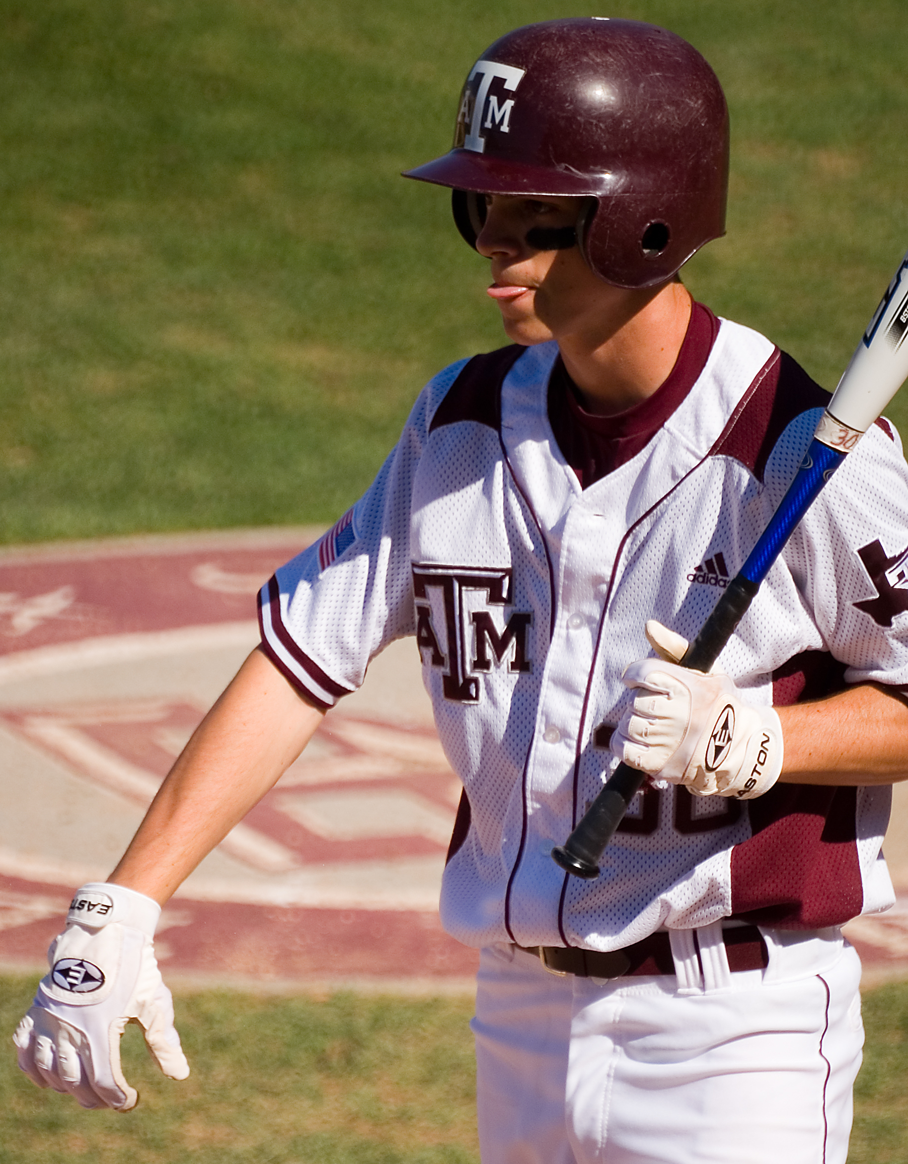 Brooks Raley comes to bat for Texas A&M in 2008.